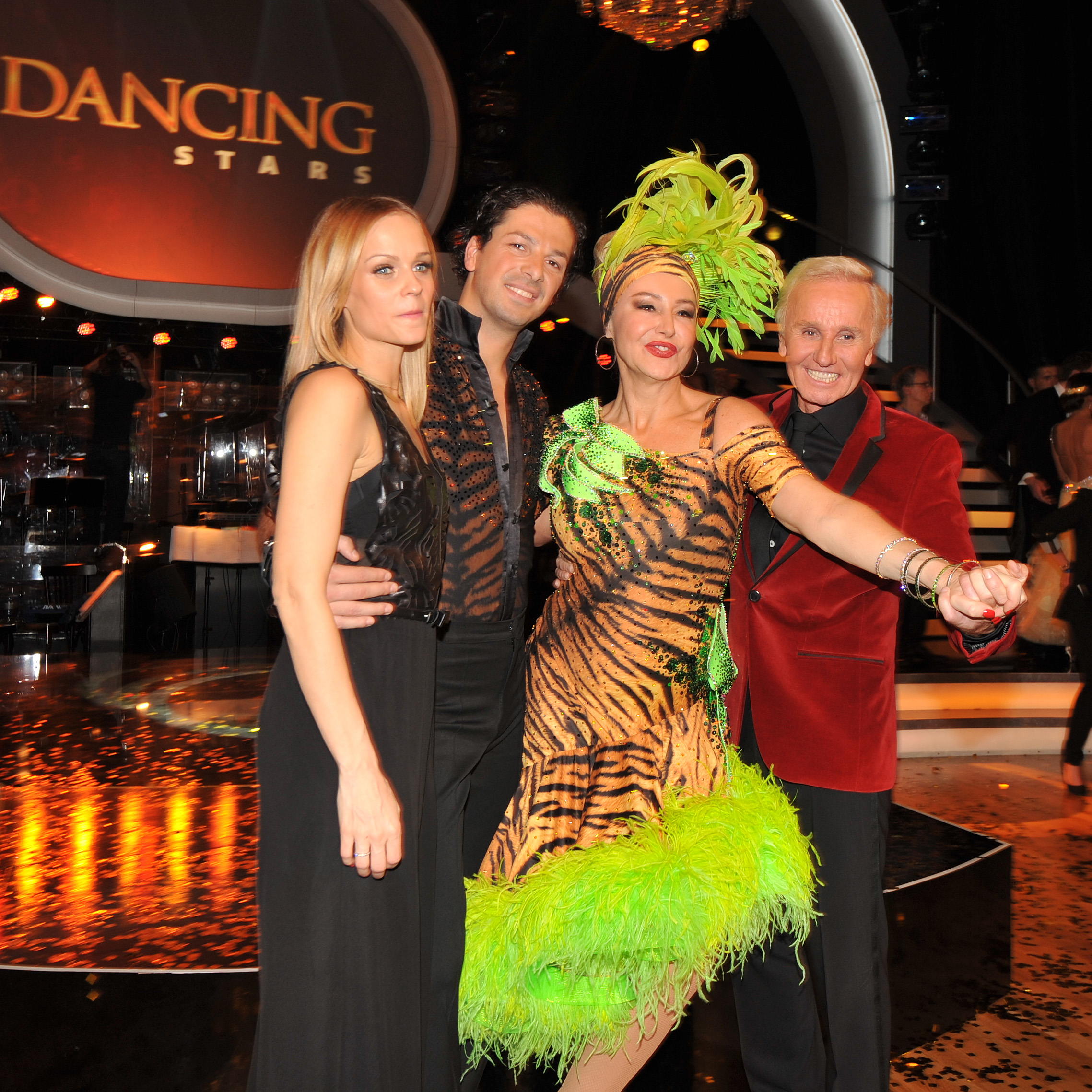 "Dancing Stars" am 21. März 2014: Andrea Buday und Thomas Kraml